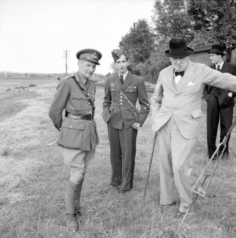 Prime Minister Winston Churchill and King Peter II of Yugoslavia with Lieutenant-General Montgomery who had recently been appointed commander of 12th Corps.